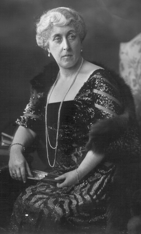 Princess Helena Victoria of Schleswig-Holstein